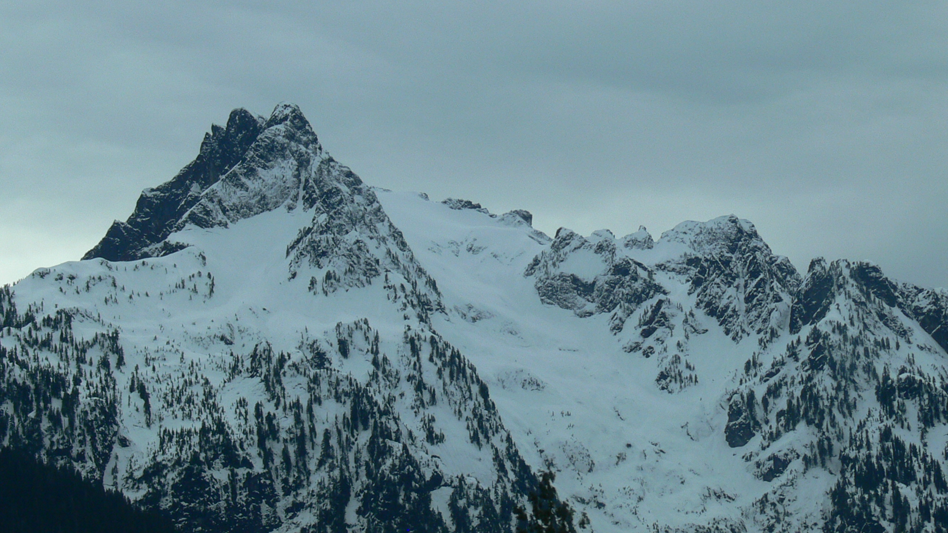 White Horse Mountain from Darrington